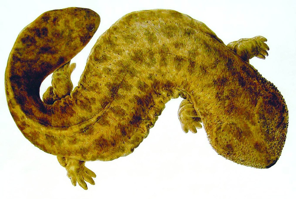 Japanese giant salamander Andrias japonicus, Siebold Collection, Naturalis, Leiden. Taxidermied salamander